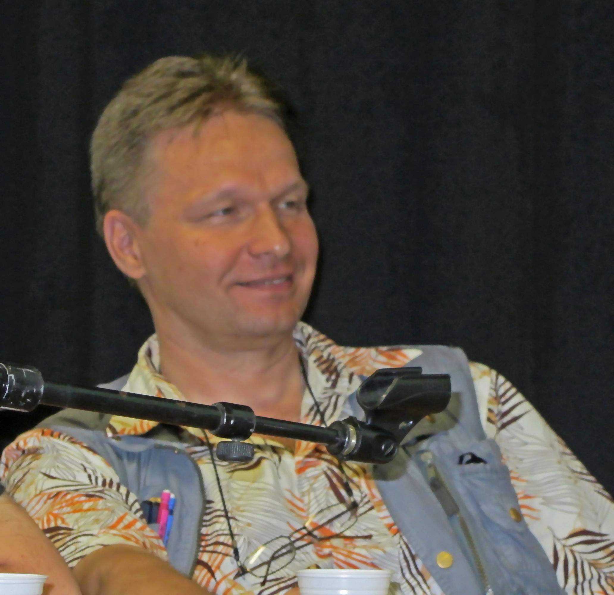 Anssi Rauhala at Finncon 2013 in Helsinki, Finland